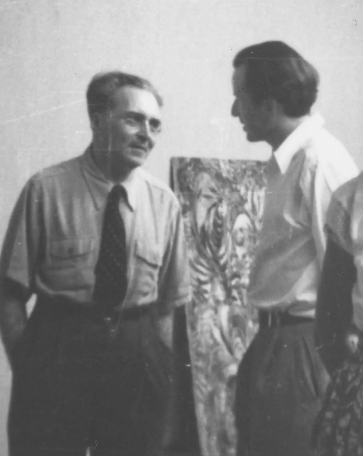 The soviet anarchist Victor Serge in the studio of the artist Wolfgang Paalen